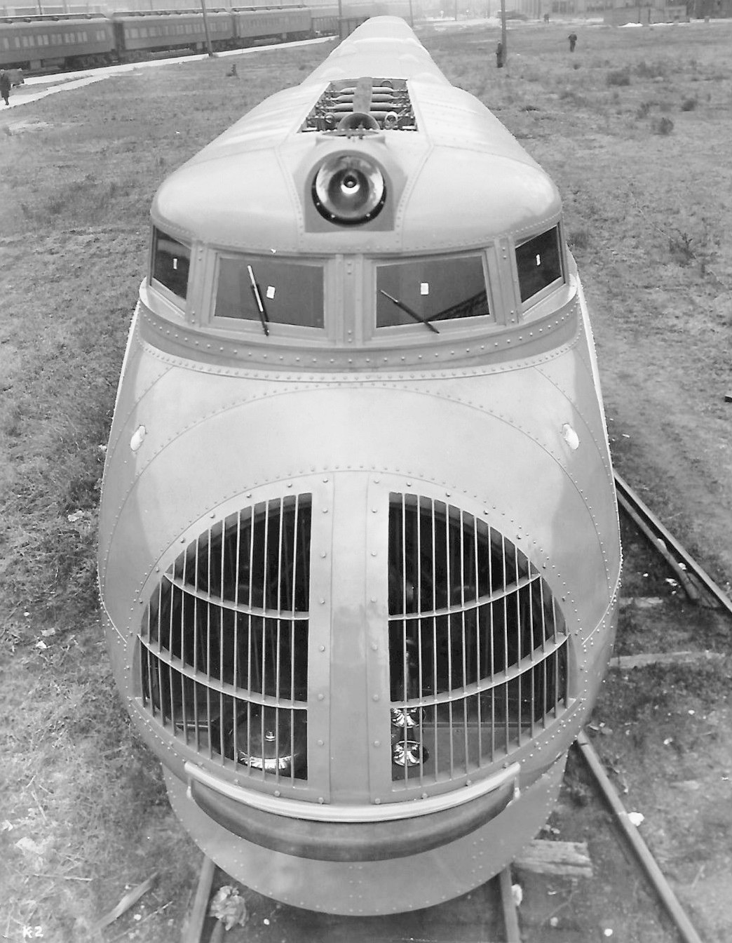 Photo of the new Union Pacific streamliner M-10000 built by the Pullman Company at Pullman Works, Chicago. The train is so new it still has stickers affixed to the glass for the windows. Note the photo uploaded is of better quality than the one shown in the newspaper scan. Renewal searches were done in artwork (photos) and periodicals for the years 1961 and 1962. There were no listings for the Decatur Herald, the Pullman Company or Union Pacific. There's no evidence of renewal.